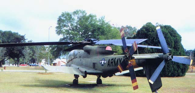 AH-56A Cheyenne at U.S. Army Aviation Museum, Ft. Rucker, AL, displaying the stub-wing, and both tail rotors.